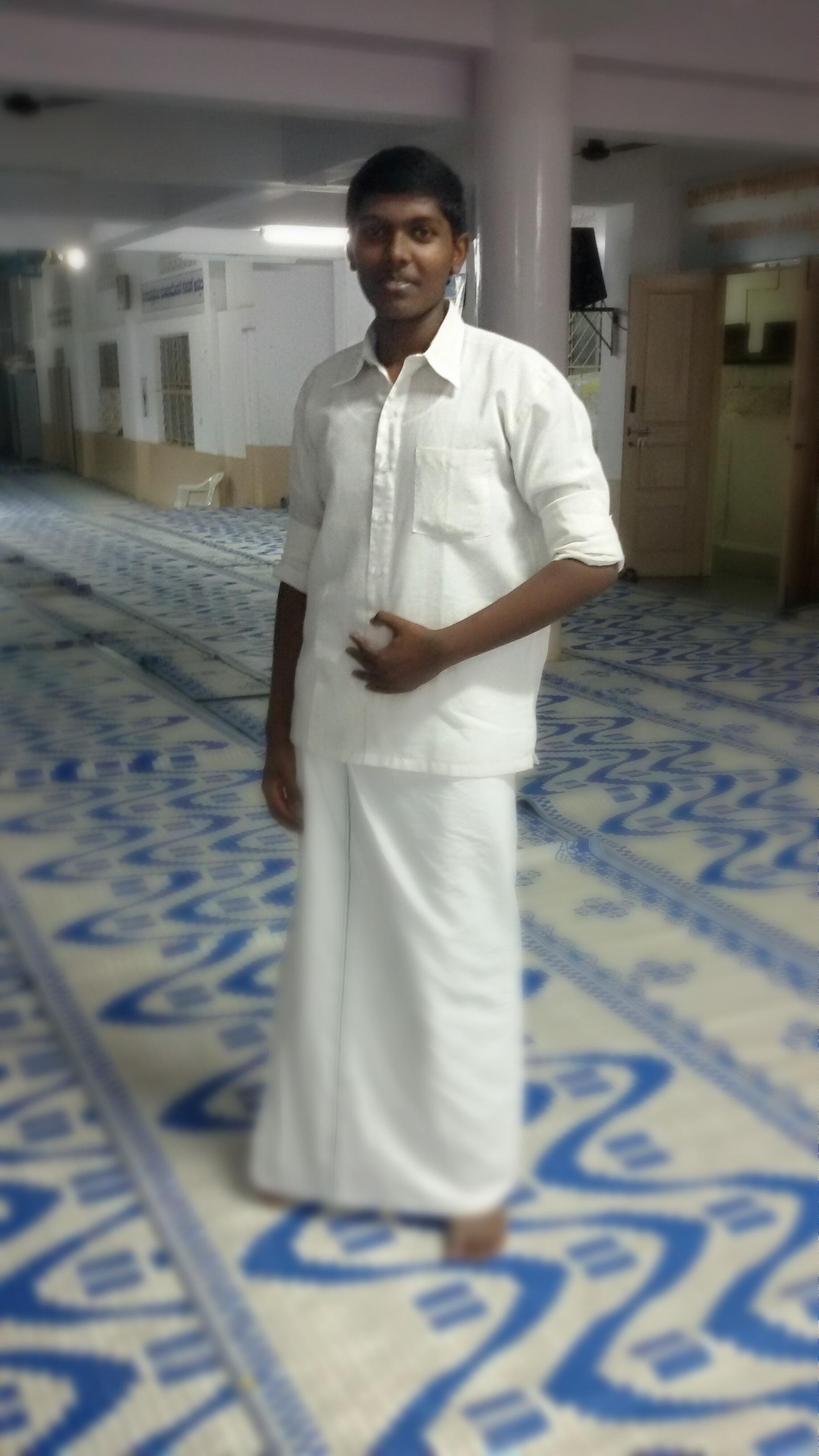 First time wearing lungi